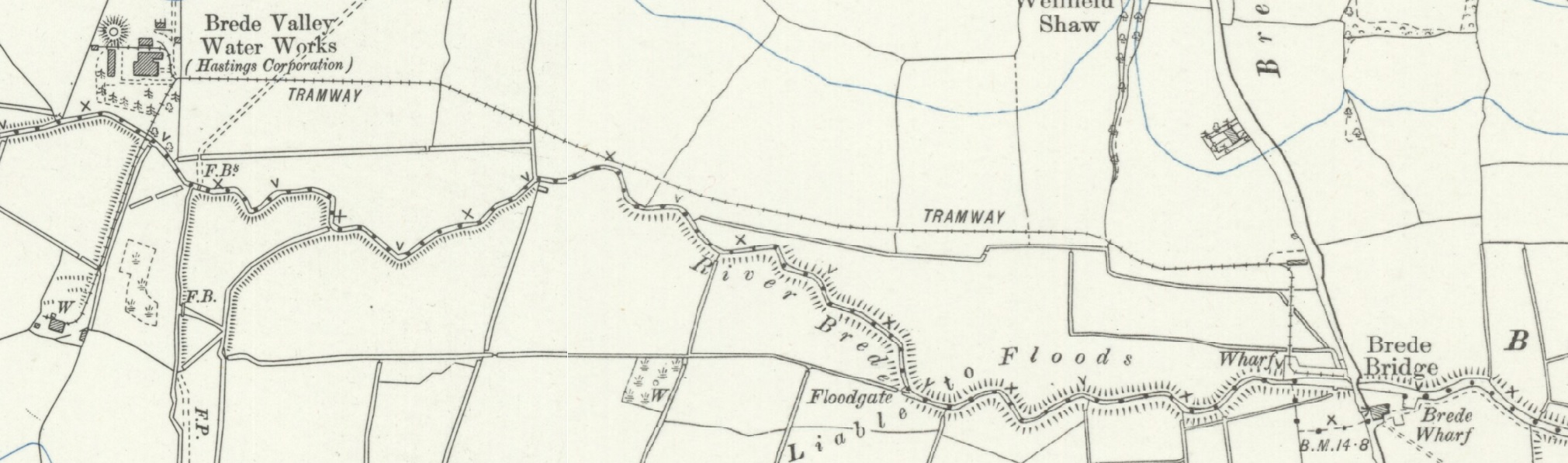 Brede Waterworks Tramway of Brede Valley Water Works (Hastings Corporation)